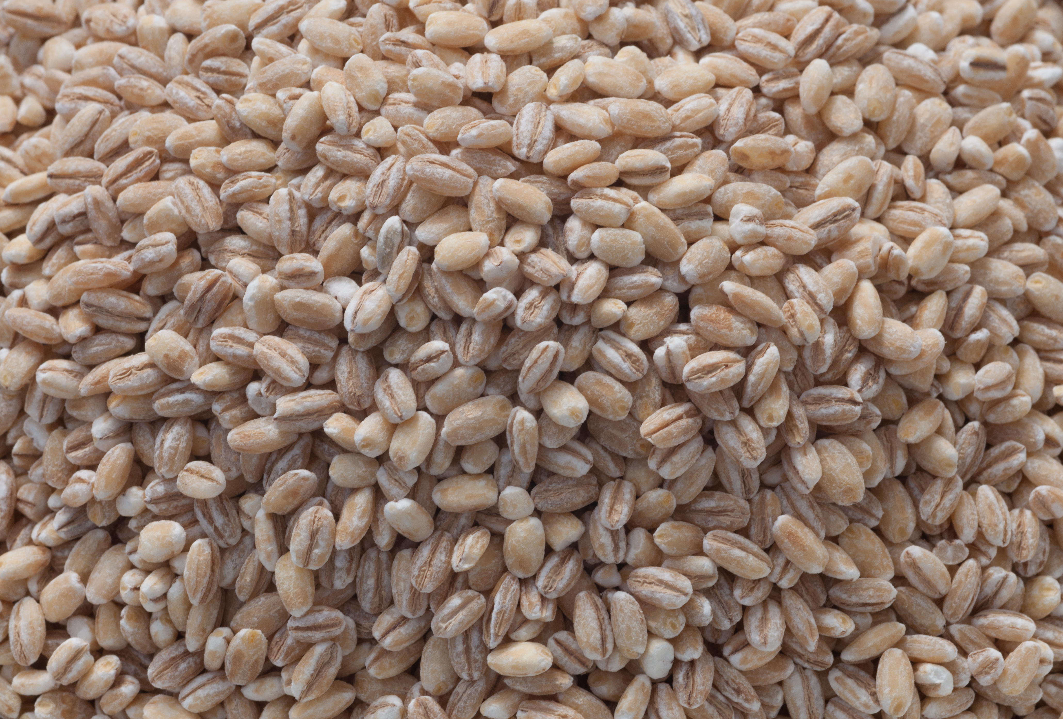 Pearled barley